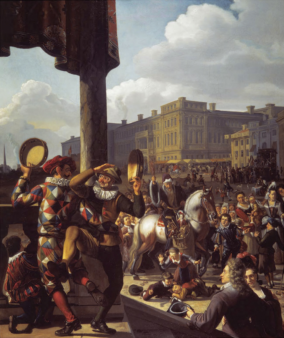 Het Sint-Nicolaasfeest oil on canvas 65 x 55,5 cm signed and dated 1703